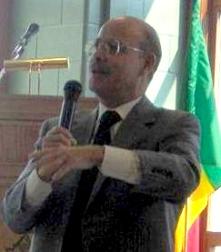 Picture of economist Jeremy Rifkin, speaking on "The European Dream" at Geneva College. Picture taken by Nyttend on 8 September 2006. (Picture: Edited).